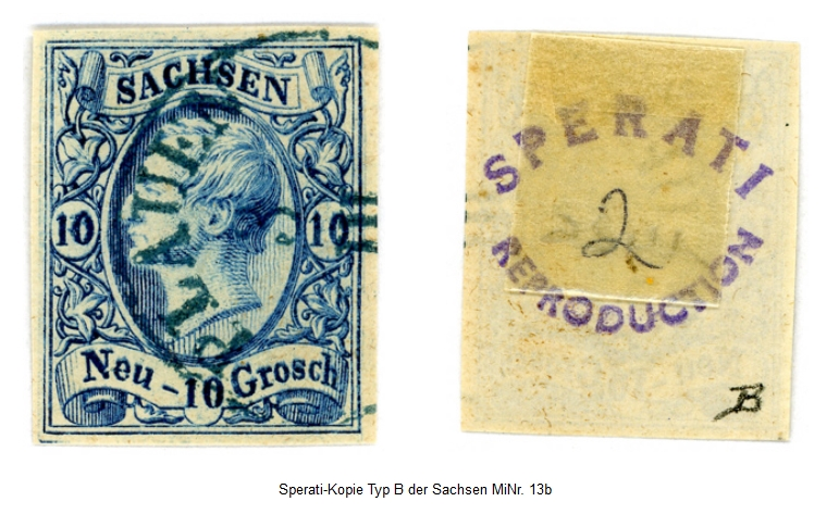 Sperati forgery of Saxony 10NG.